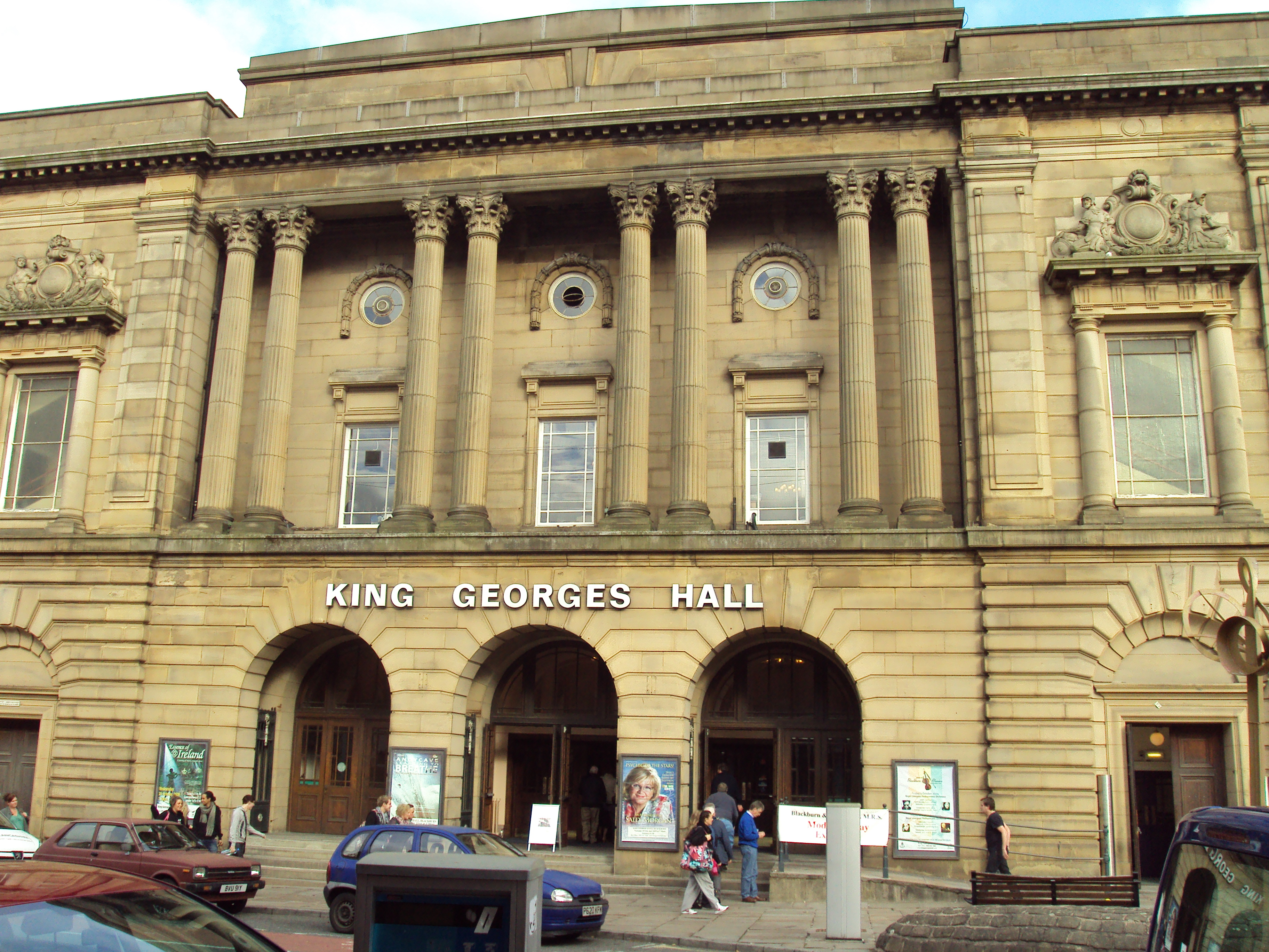 King Georges Hall, Northgate, Blackburn, Lancashire, England.